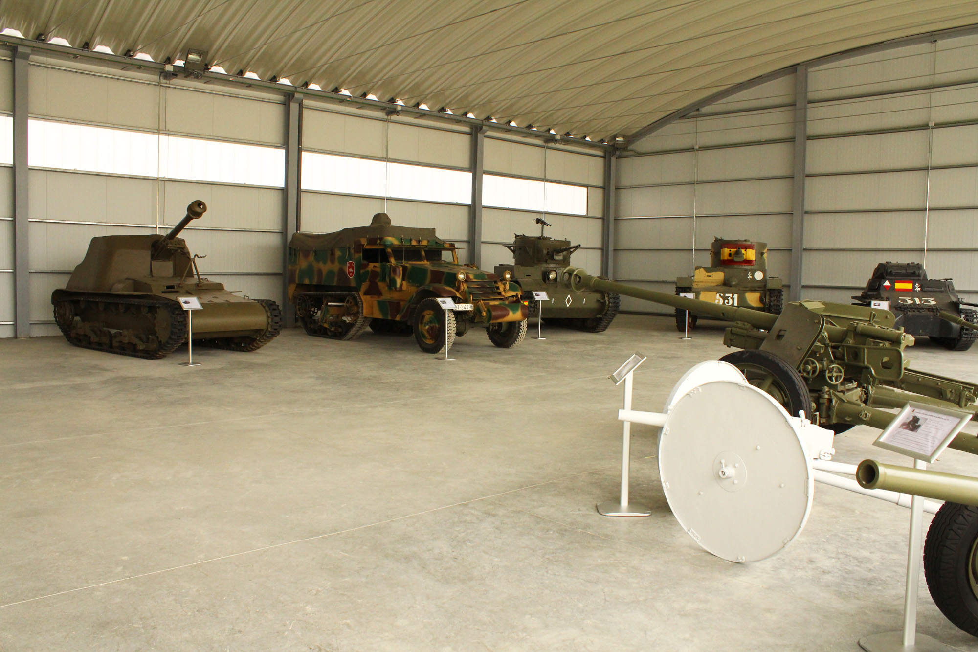 Hangar of the Museum of Armored Units of El Goloso